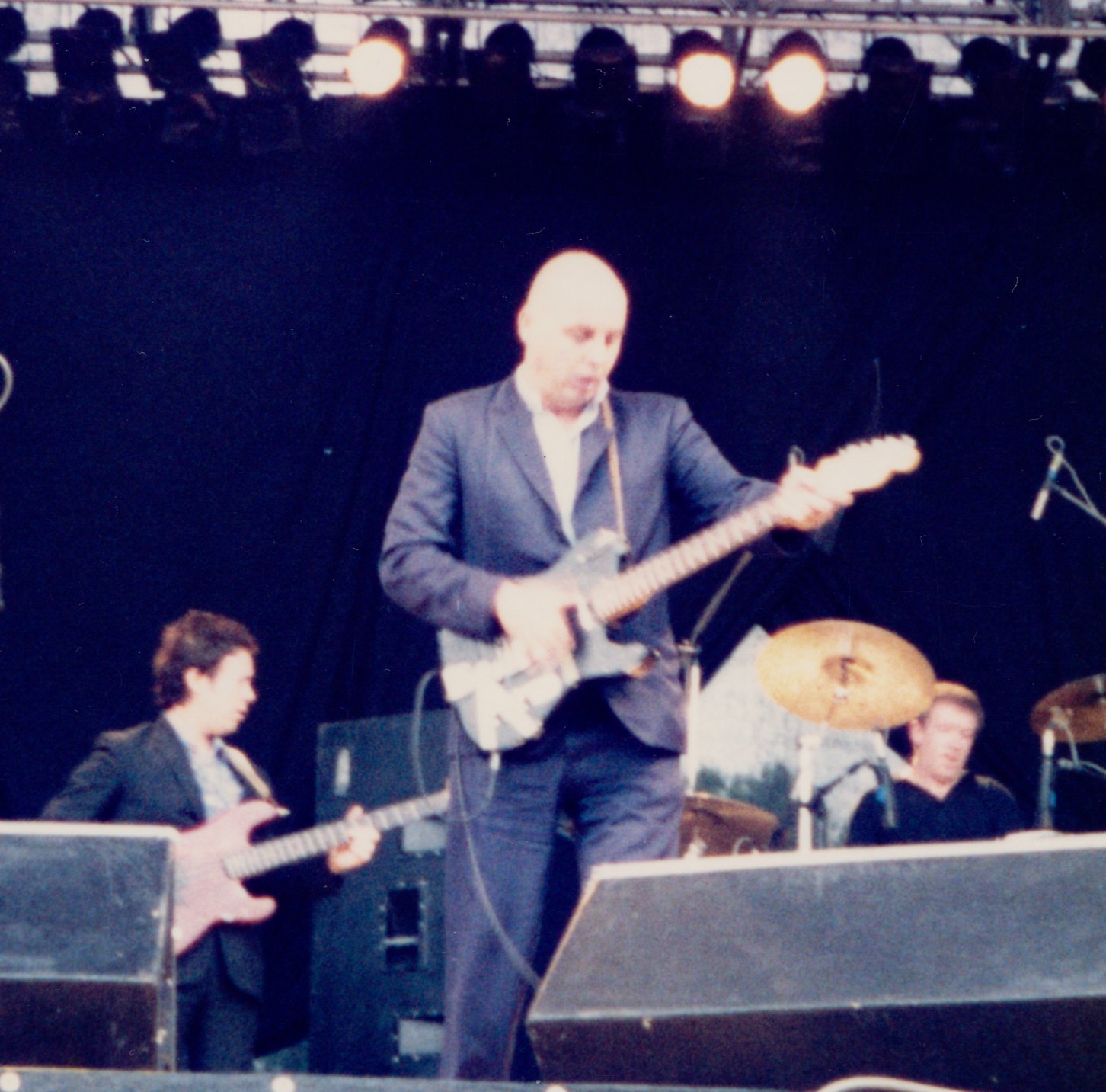 The Screaming Blue Messiahs, BAP concert ~1987 in cologne Germany